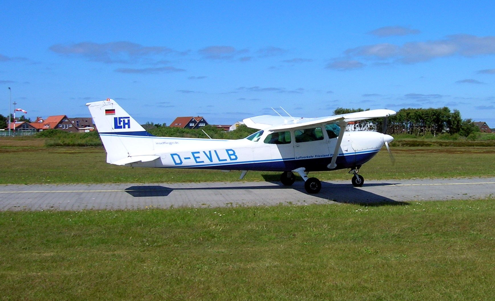 Cessna 172 D-EVLB of Luftverkehr Friesland Harle at Langeoog Airport